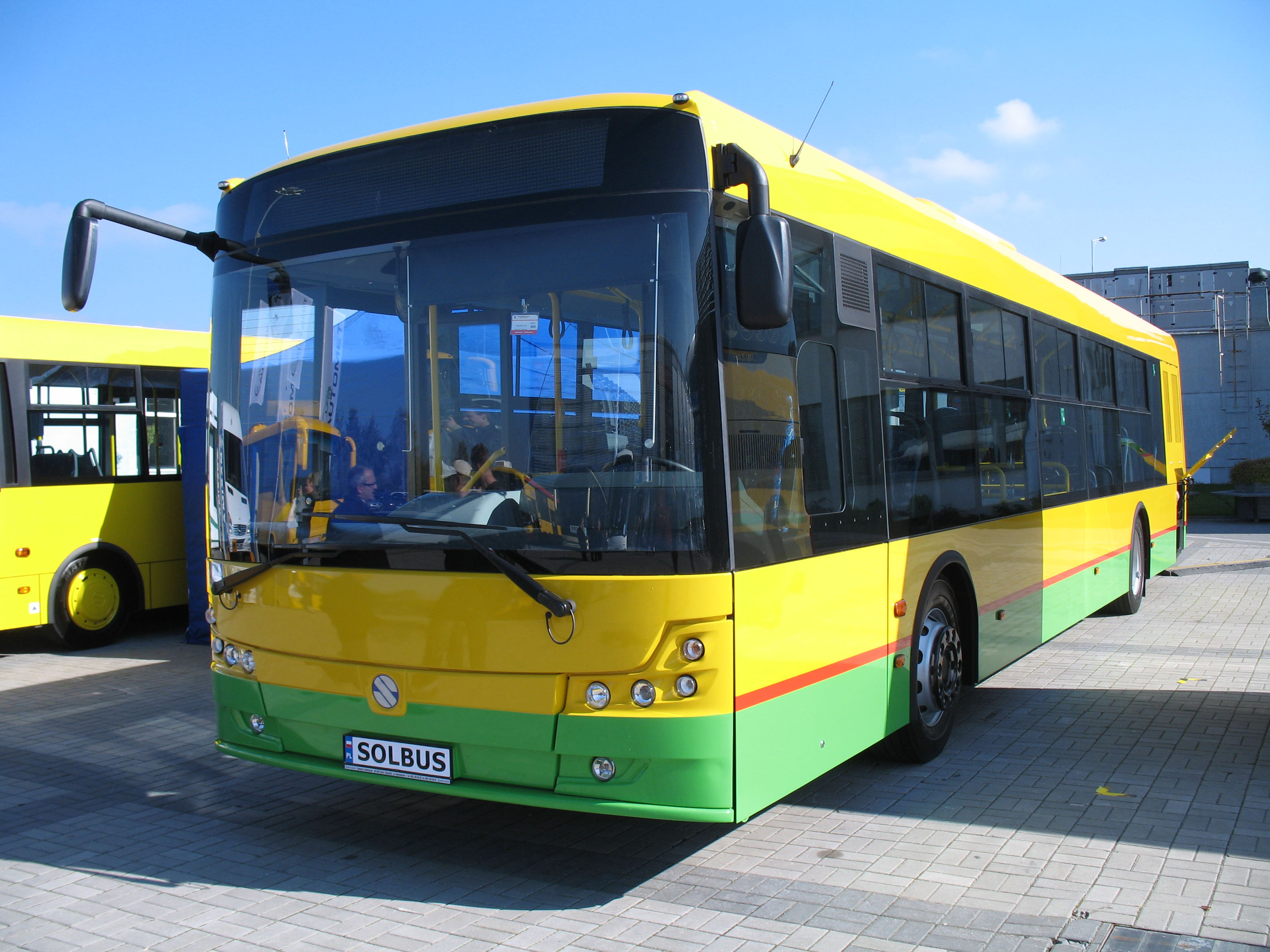 Solbus Solcity 12 LNG city bus (#277) in Kielce, Poland. Built 2010, MPK Wałbrzych operator.